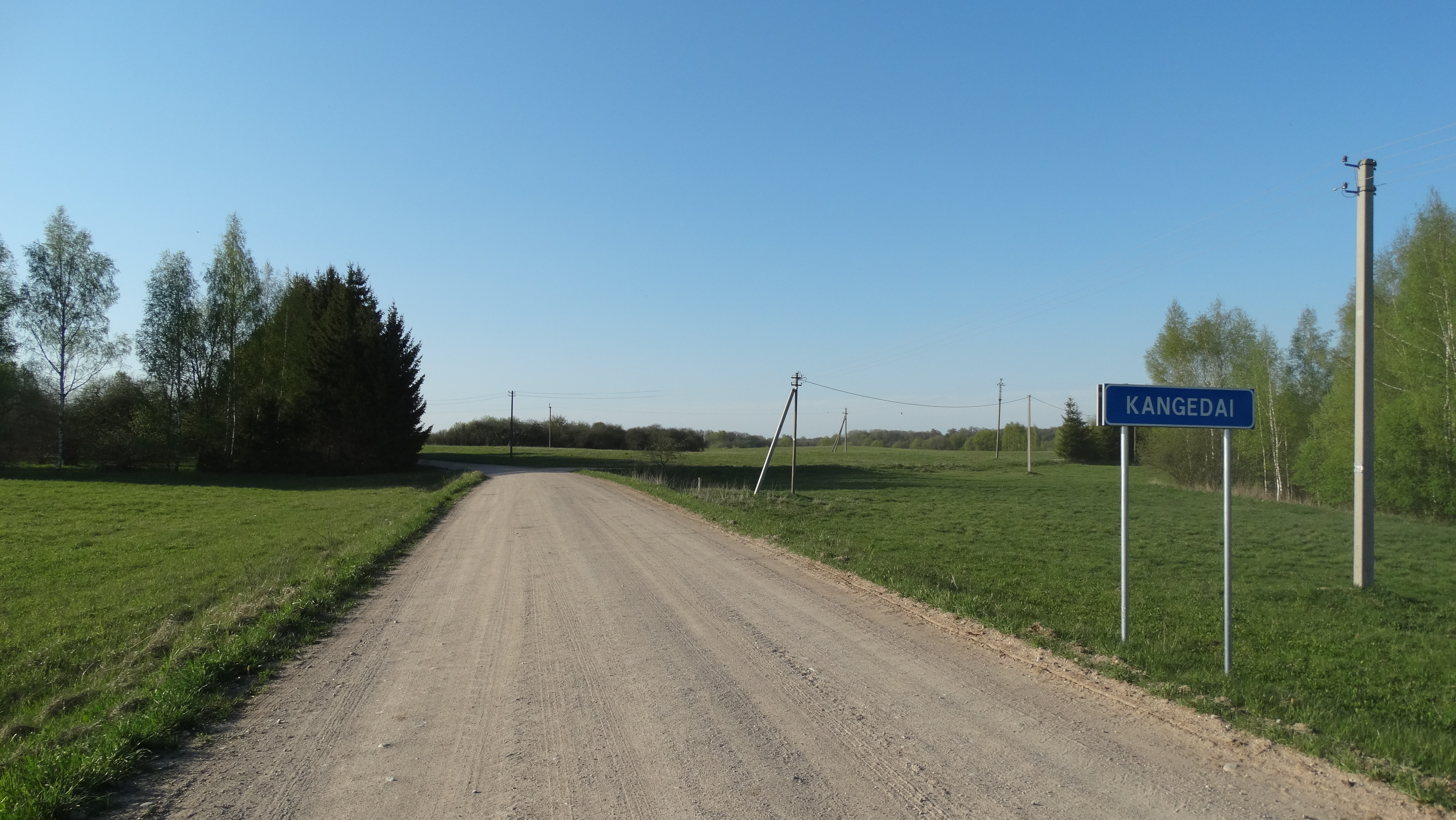 Kangedai, Širvintos District, Lithuania